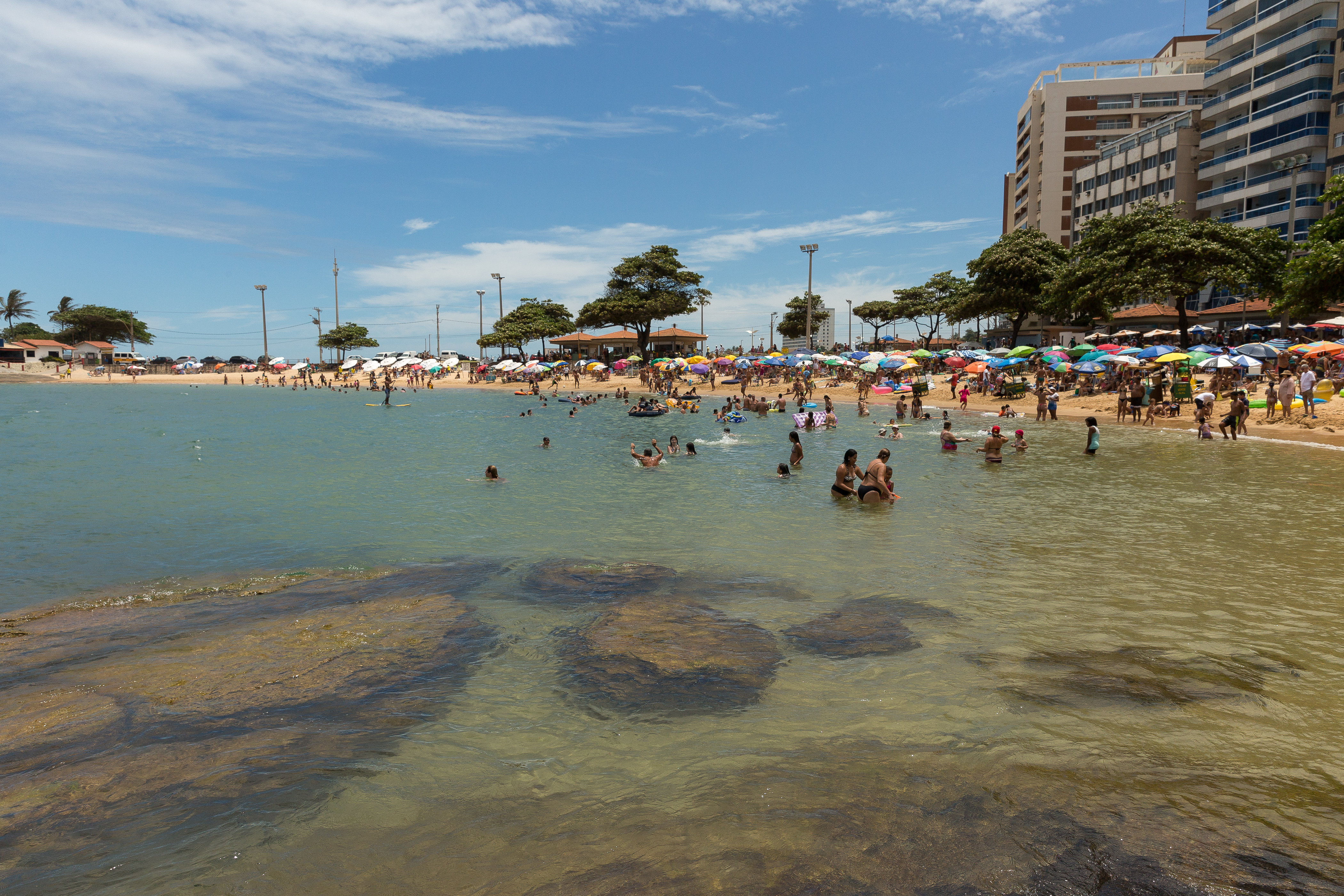 Movimentação de banhistas durante o verão na Praia das Castanheiras, localizada na cidade de Guarapari